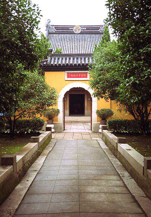 Bao Sheng Temple in Luzhi, Suzhou 保圣寺